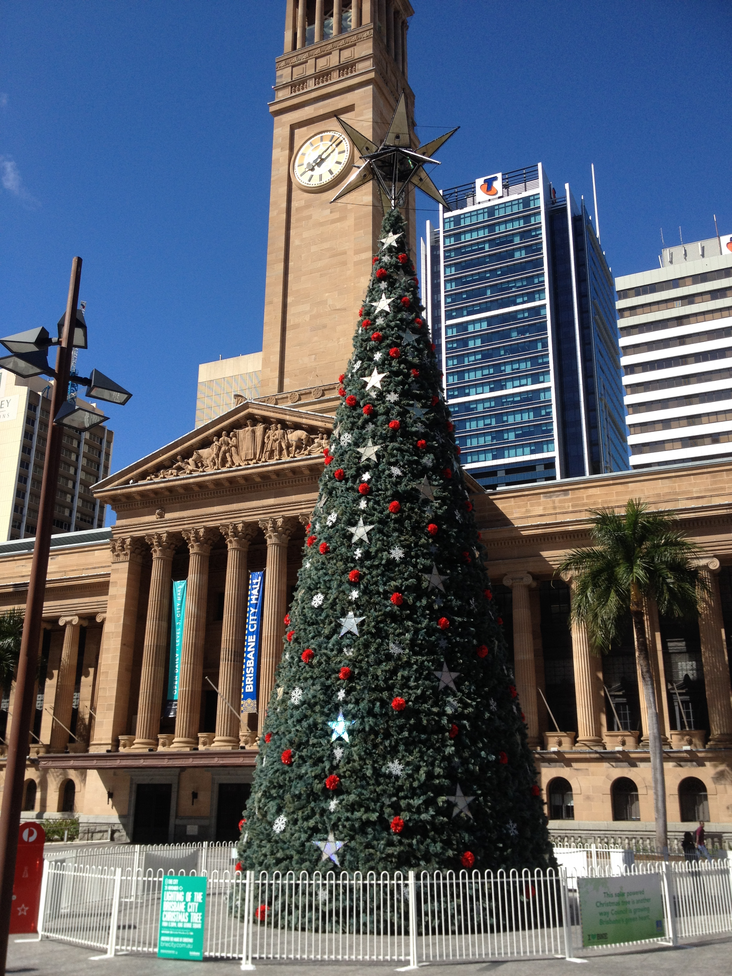 King George Square, Brisbane with Christmas tree in 12.2013